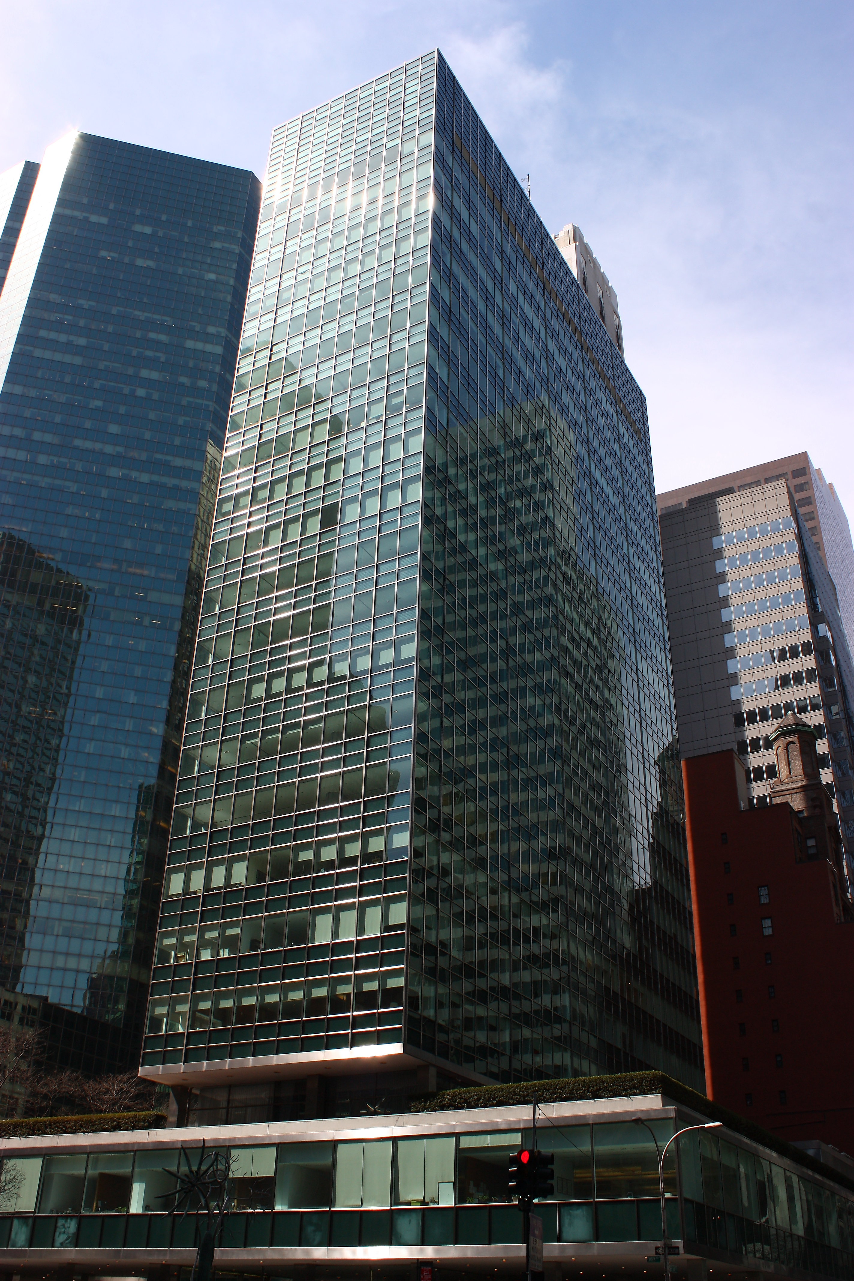 Lever House